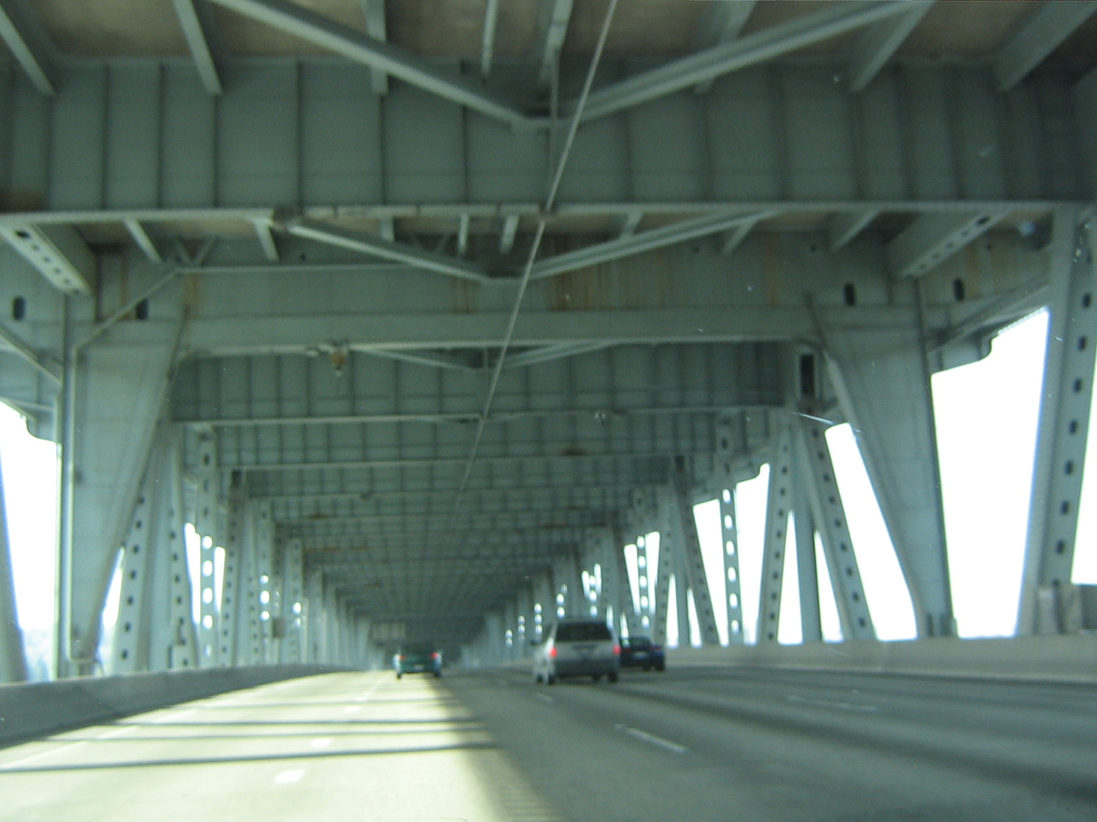 I-5 Express Lanes on the lower level of the bridge over the Lake Washington Ship Canal